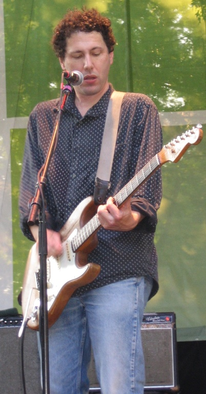 This is a picture of musician Ira Kaplan of the rock band Yo La Tengo. This picture was taken by Karl Ward on 4 July 2005 at the River To River Festival show in Battery park in New York City. A Canon Powershot SD200 digital camera was used to capture the image. Copyright (c) 2005 Karl Ward.